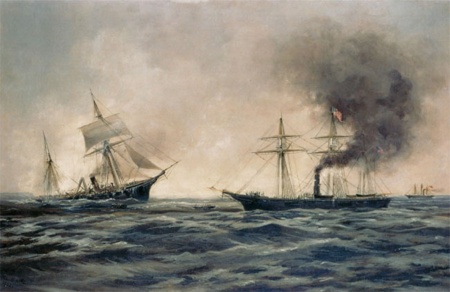 A painting depicting the naval battle between the USS Kearsarge and the CSS Alabama.